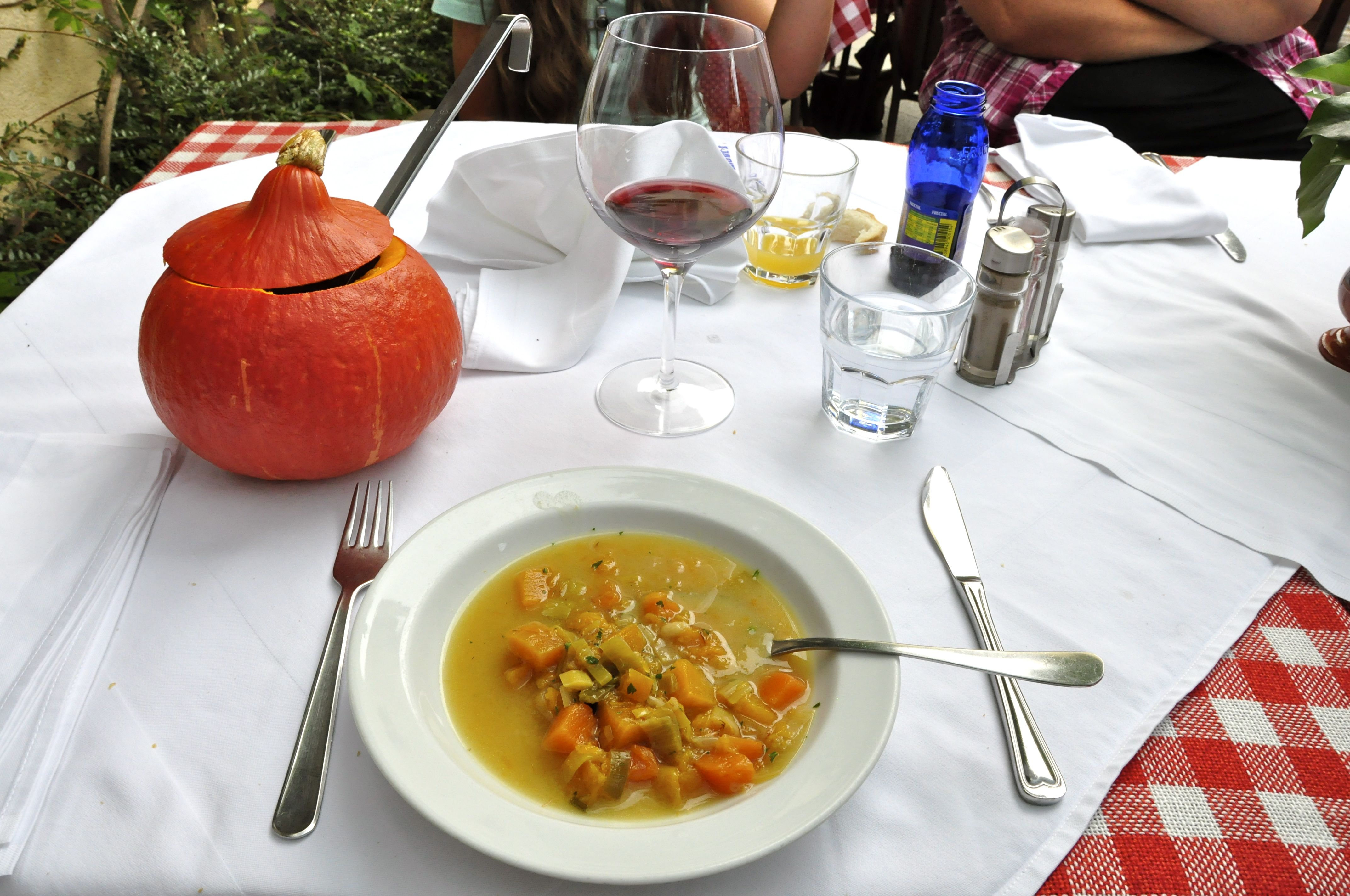 Pumpkin soup in the restaurant Lectar in Radovljica, municipality Radovljica, Upper Carniola, Slovenia, EU